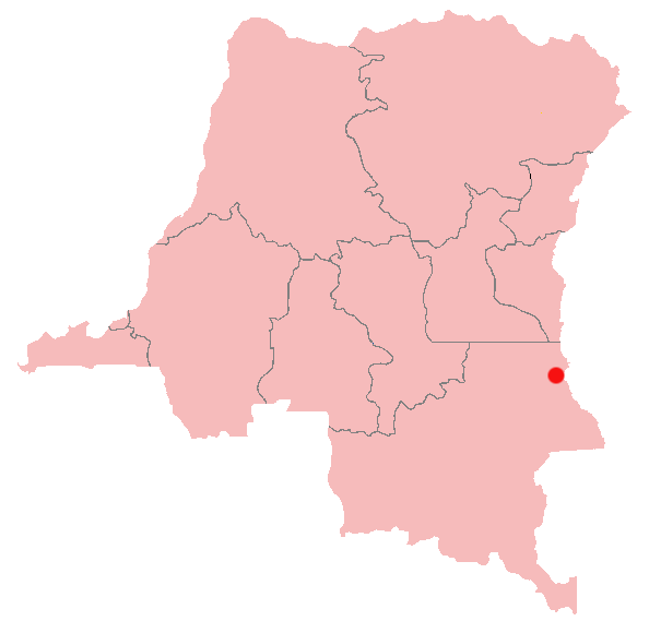 Kalemie, Democratic Republic of the Congo Location Map; created with the GIMP. Made by User:Acntx. 21:49, 12 February 2006 Acntx 594x569 (8012 bytes)